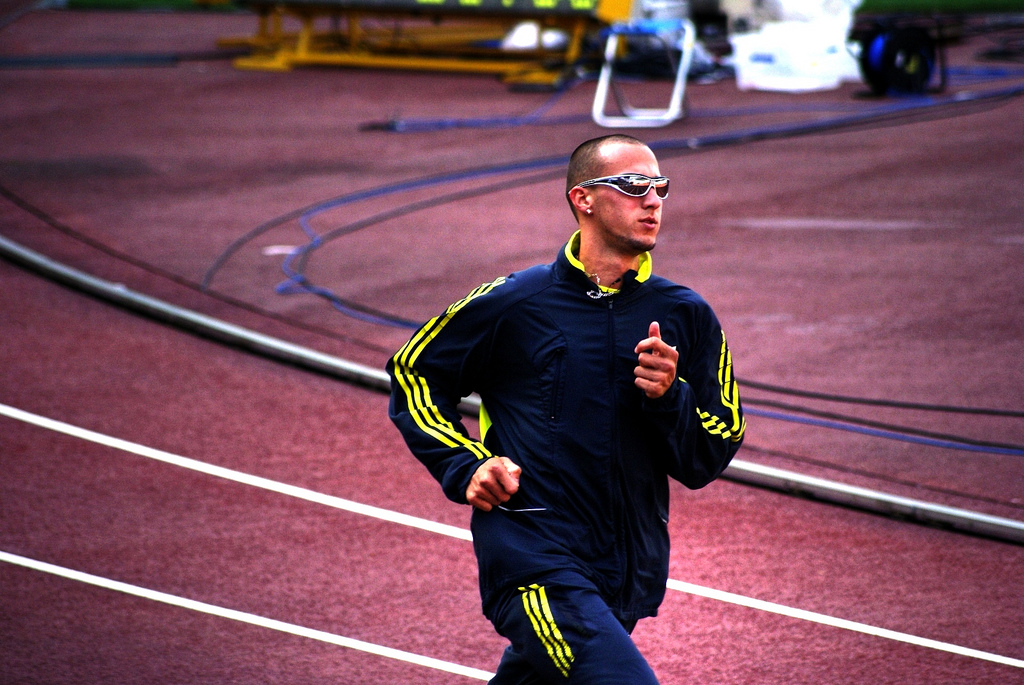 Jeremy Wariner. Nagai Stadium. Athletics. The third fastest competitor in the history of the 400 m event.